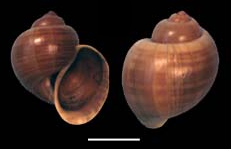 photo of apertural and abapertural view of the shell of Pomacea poeyana.